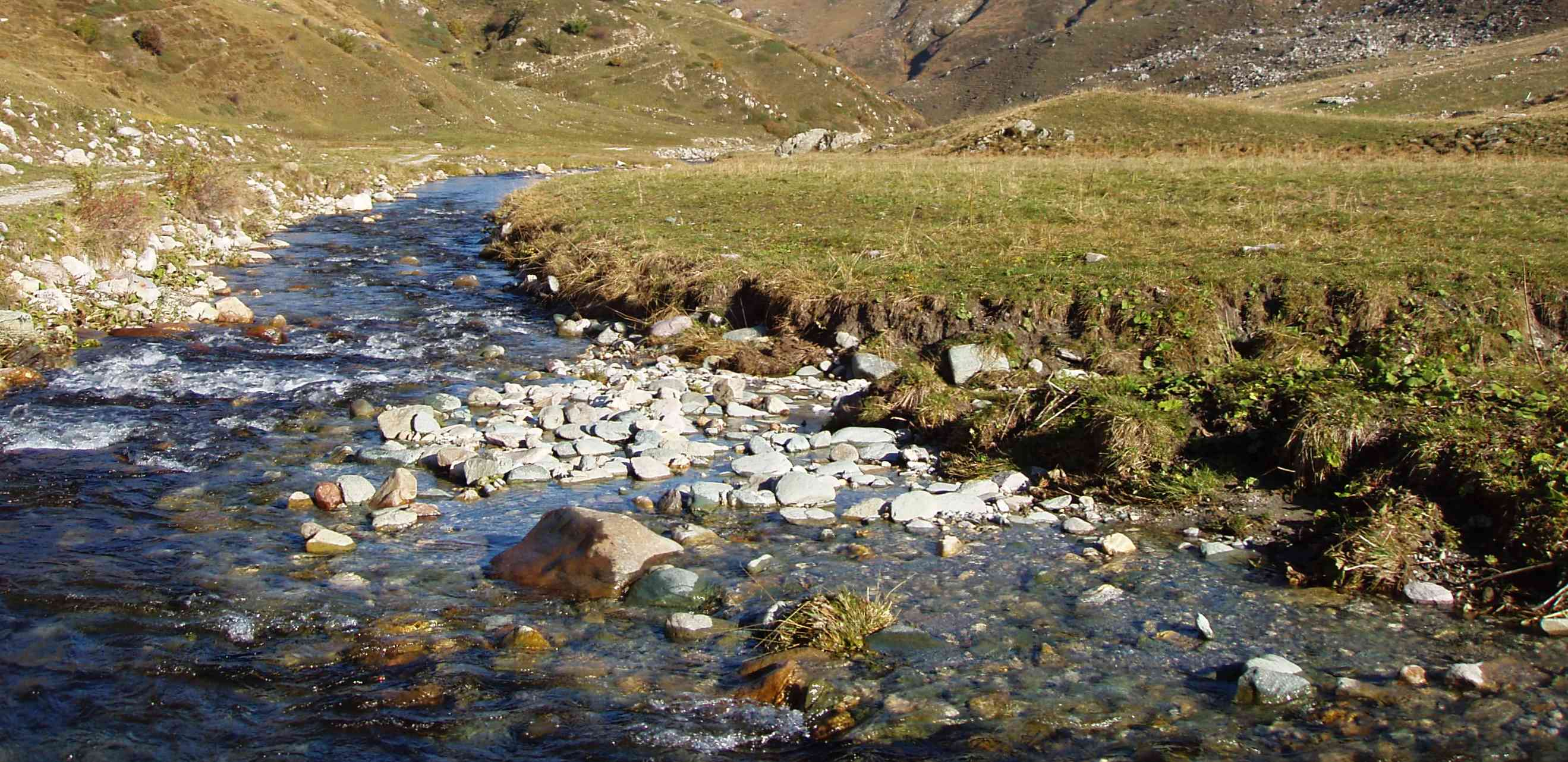 Ellero creek near Pian Marchisio (CN, Italy)